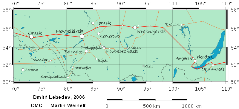 Main cities of Siberia with population about 500,000 and more. The areas of the circles indicathe the cities' sizes. The cities include Omsk, Novosibirsk, Tomsk, Barnaul